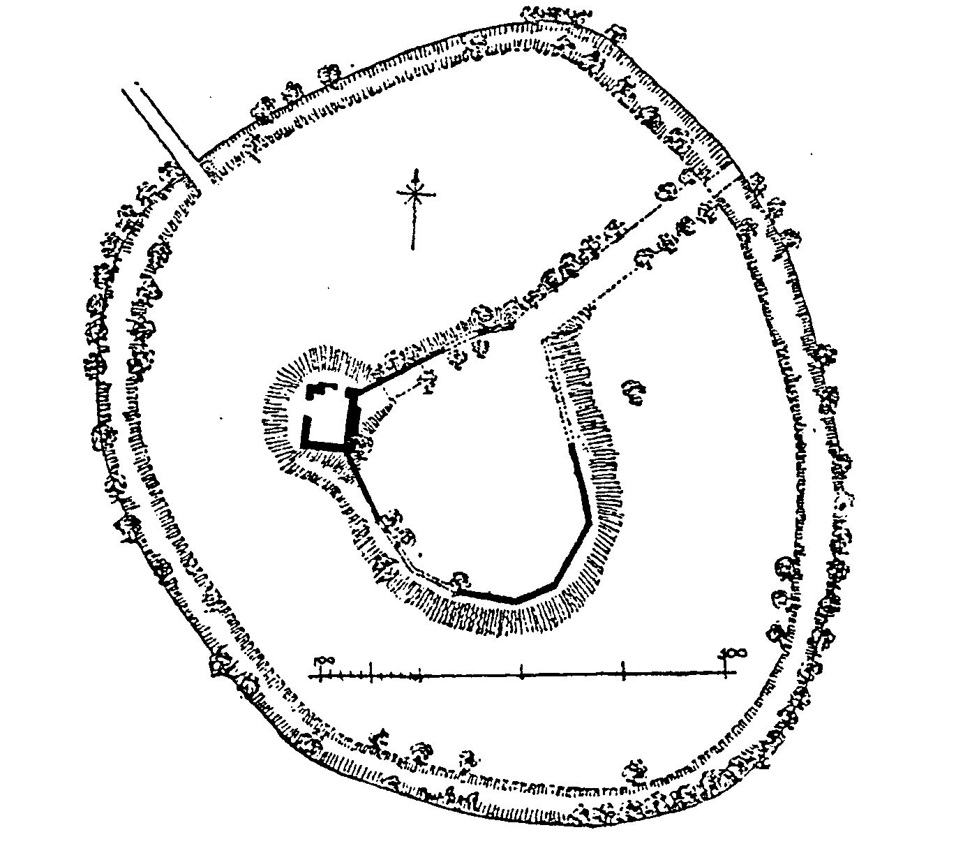 Copyright expired. Figure taken from MacGibbon, D & Ross, T 1887 The Castellated and Domestic Architecture of Scotland, vol 1. Edinburgh.